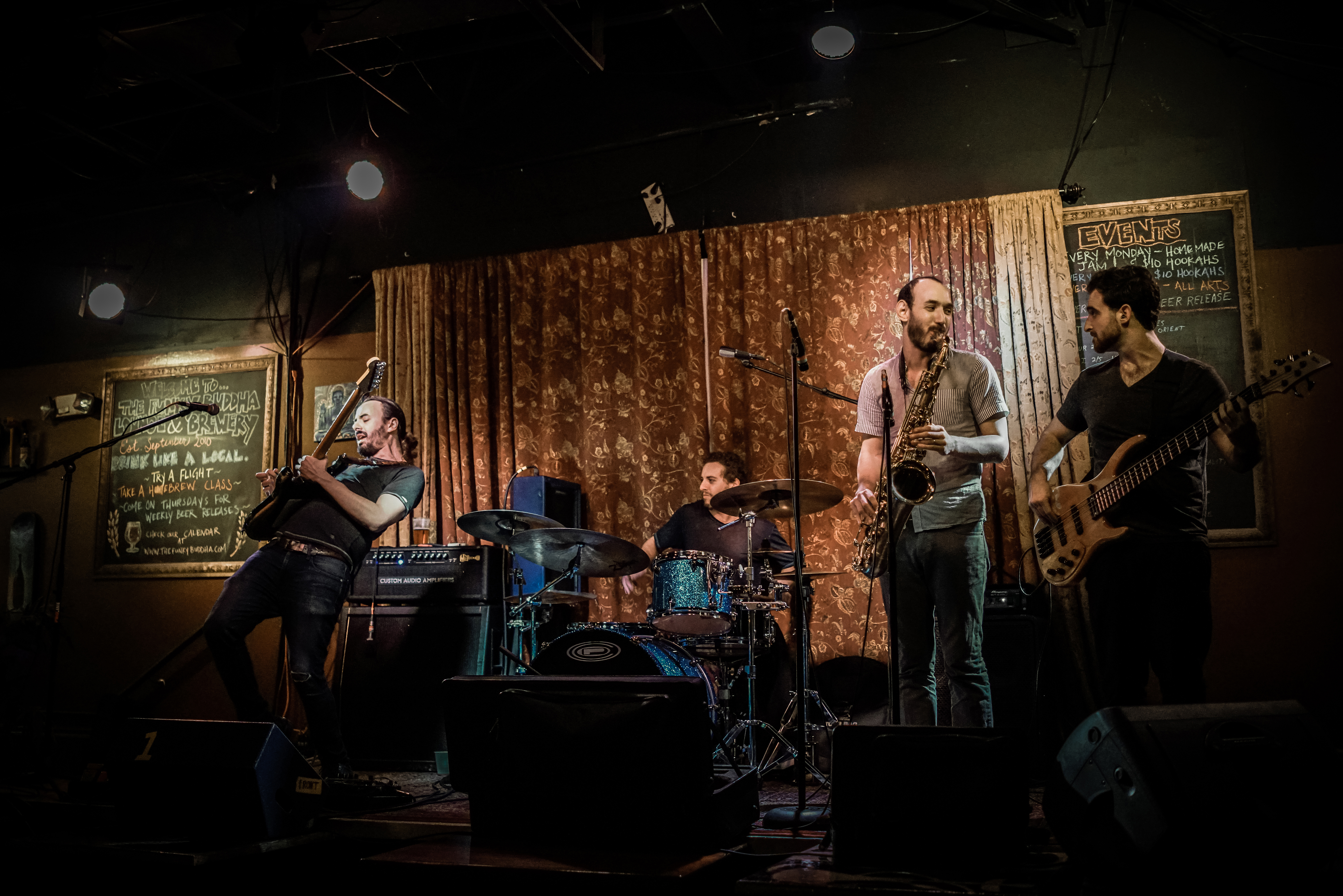 Marbin is a progressive jazz-rock band based in Chicago, Illinois. This picture was taken on February 2016, at The Funky Buddha, Oakland Park, Florida